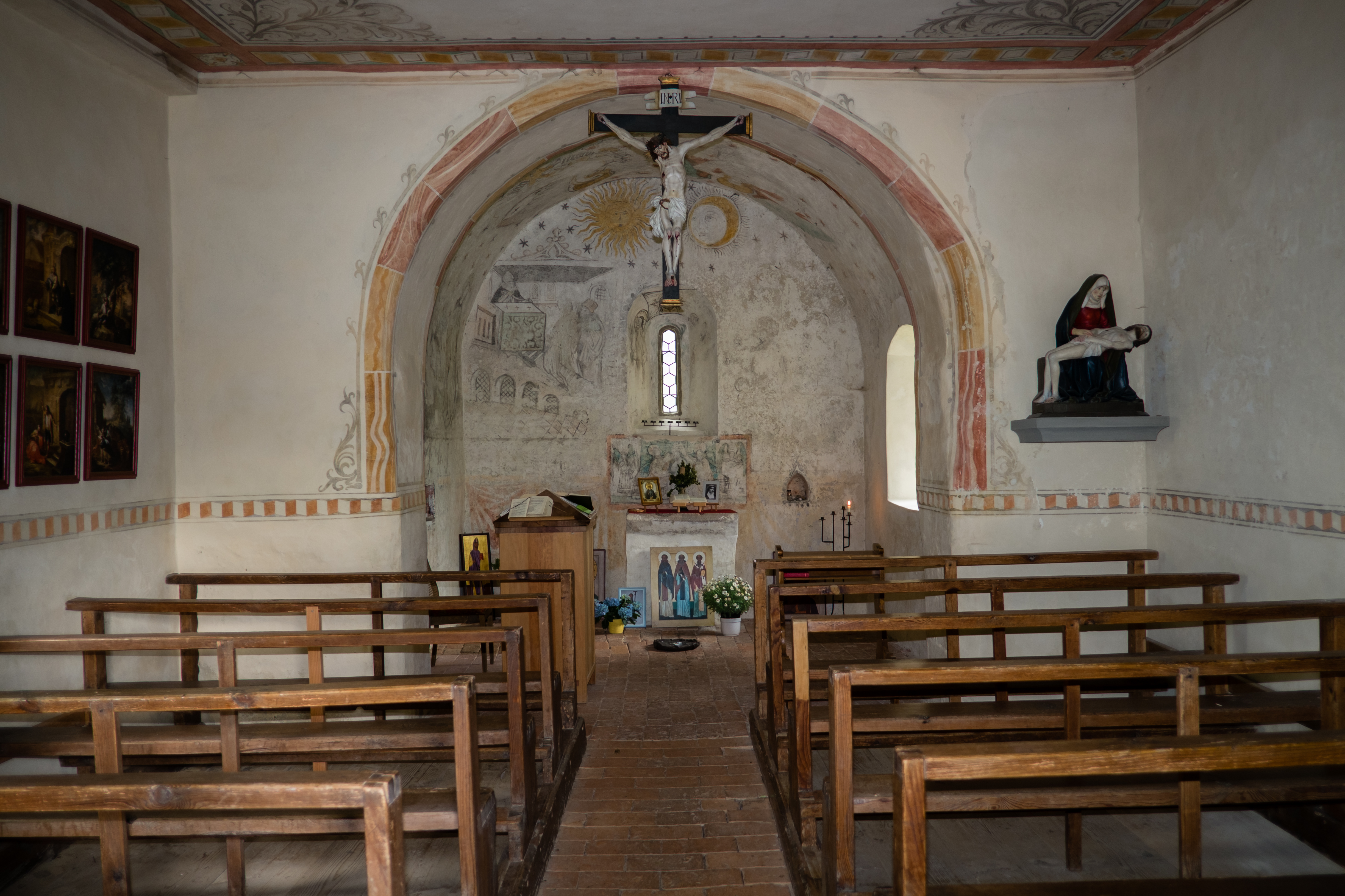 Chapel Saint Wendelin, Heiligenberg-Ramsberg, County Bodenseekreis, Baden Wurttemberg, Germany